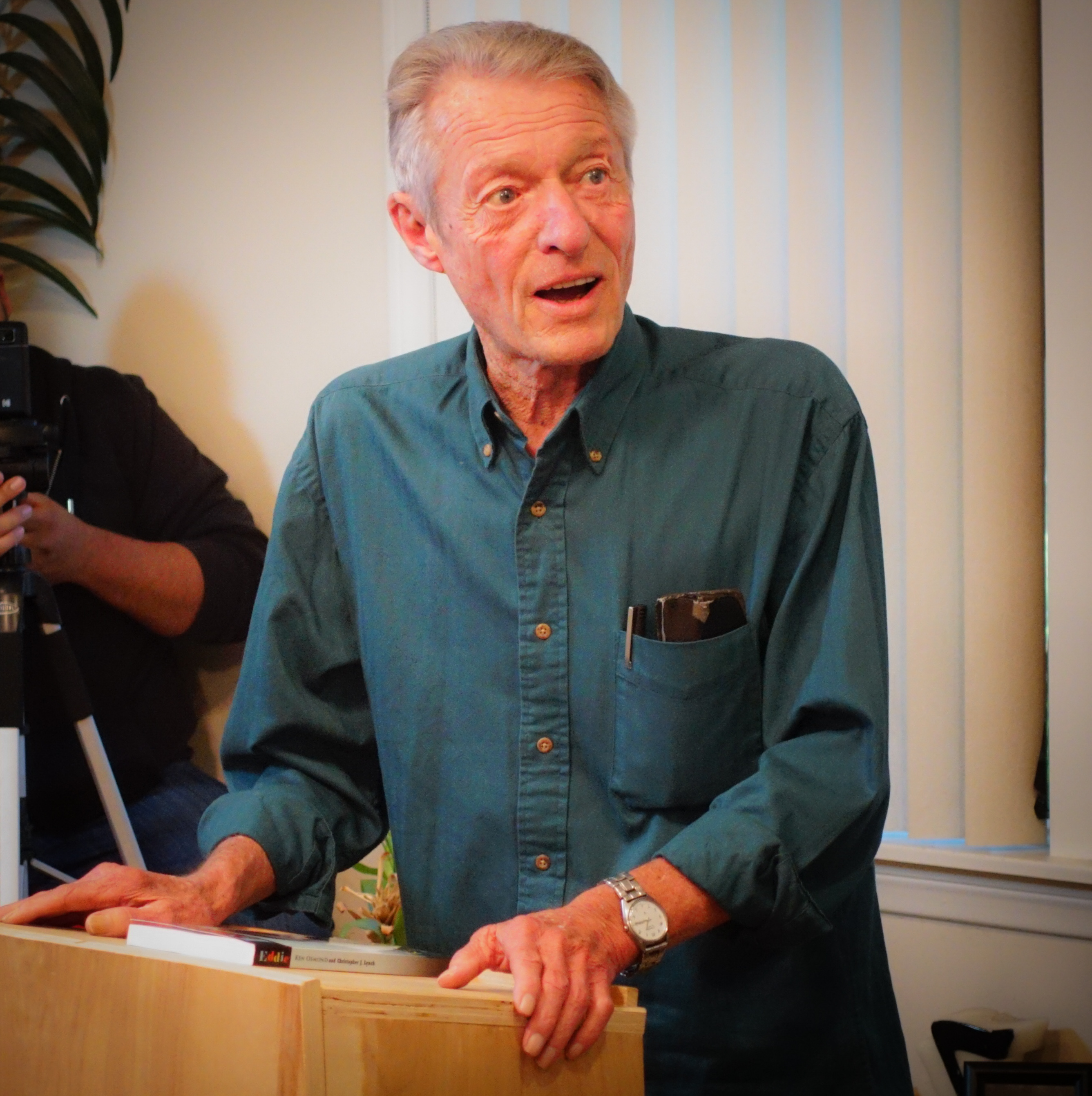 Ken Osmond in 2014